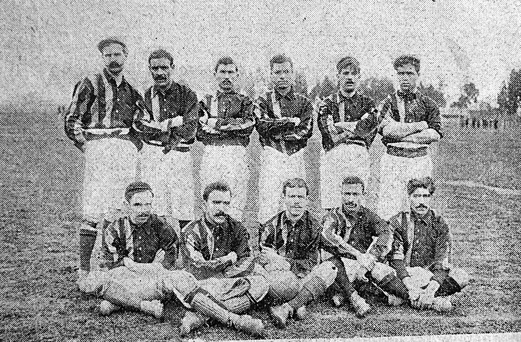 The CURCC team that played Rosario A.C. at Flores Old Ground for the Tie Cup final. They lost 3-2.